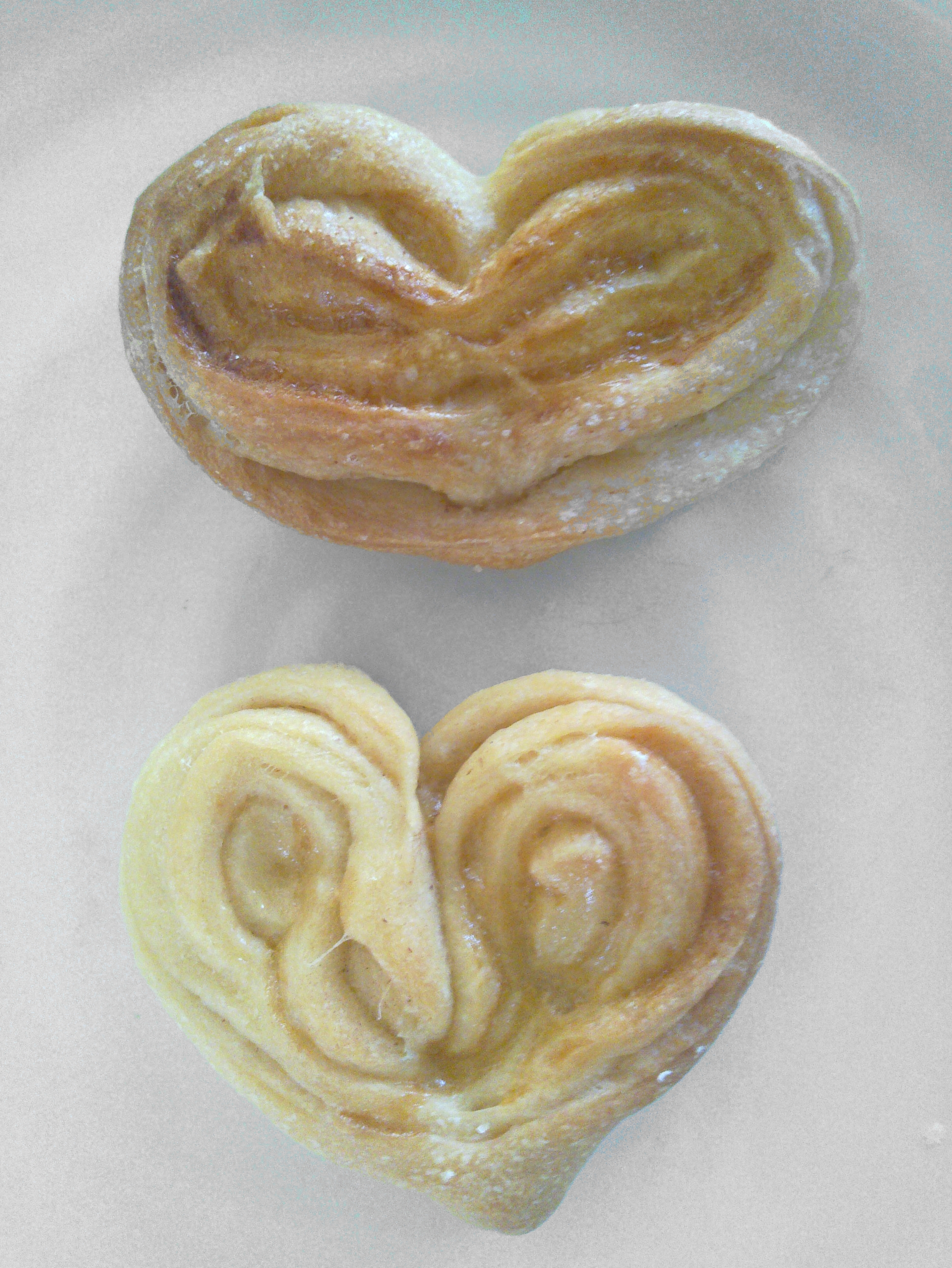 Две плюшки